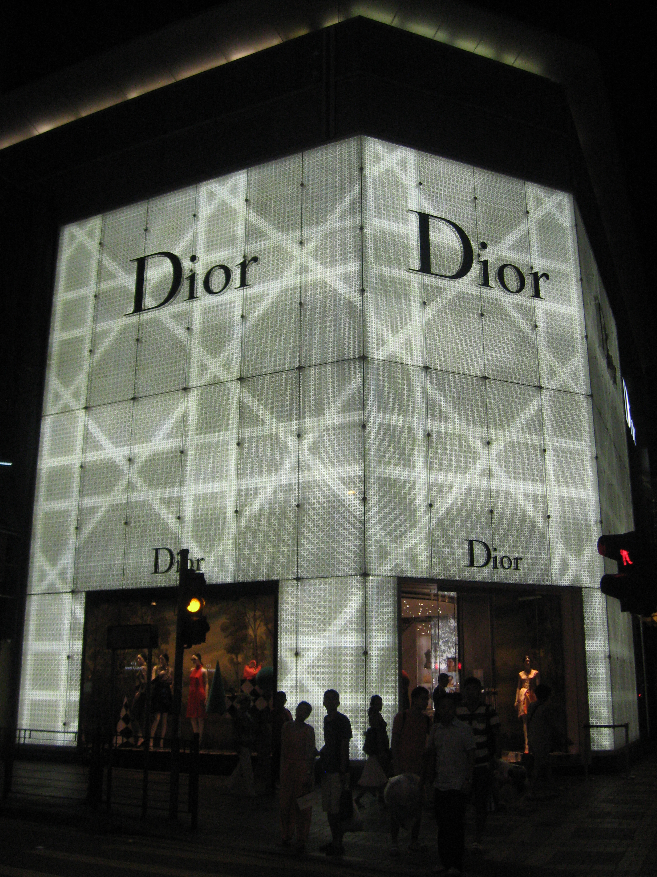 Dior store, Hong Kong